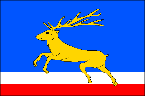 Municipal flag of Javorník village, Hodonín District, Czech Republic.